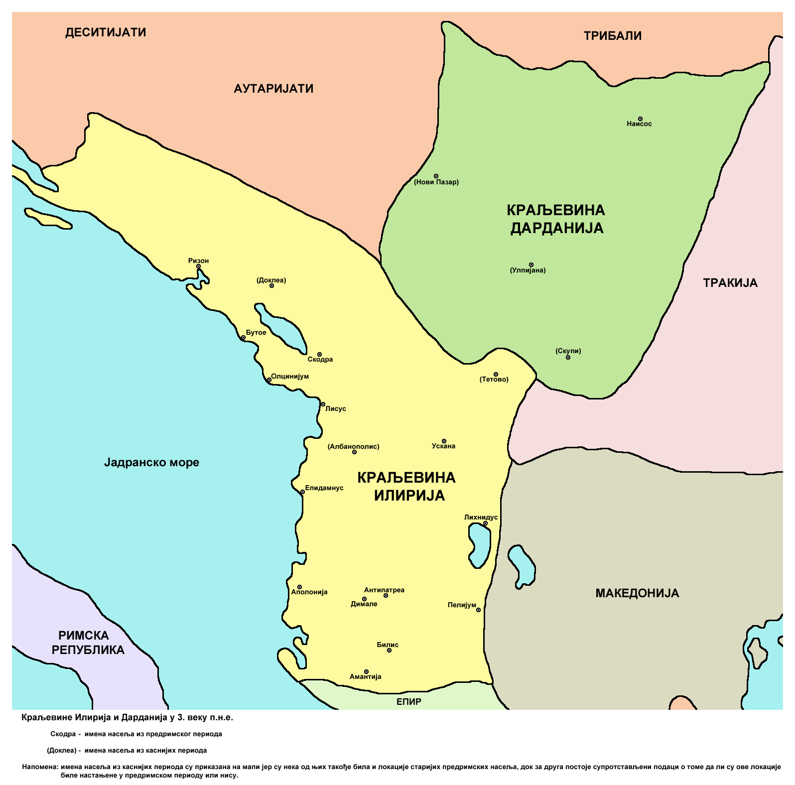 Kingdom of Illyria (under king Agron and queen Teuta, stretching "from Epirus to Neretva") and Kingdom of Dardania in the 3rd century BC. Note: borders of Illyria and Dardania are made according to the map from the article written by Fanula Papazoglu, professor of the University of Belgrade and academician of the Serbian Academy of Sciences and Arts.